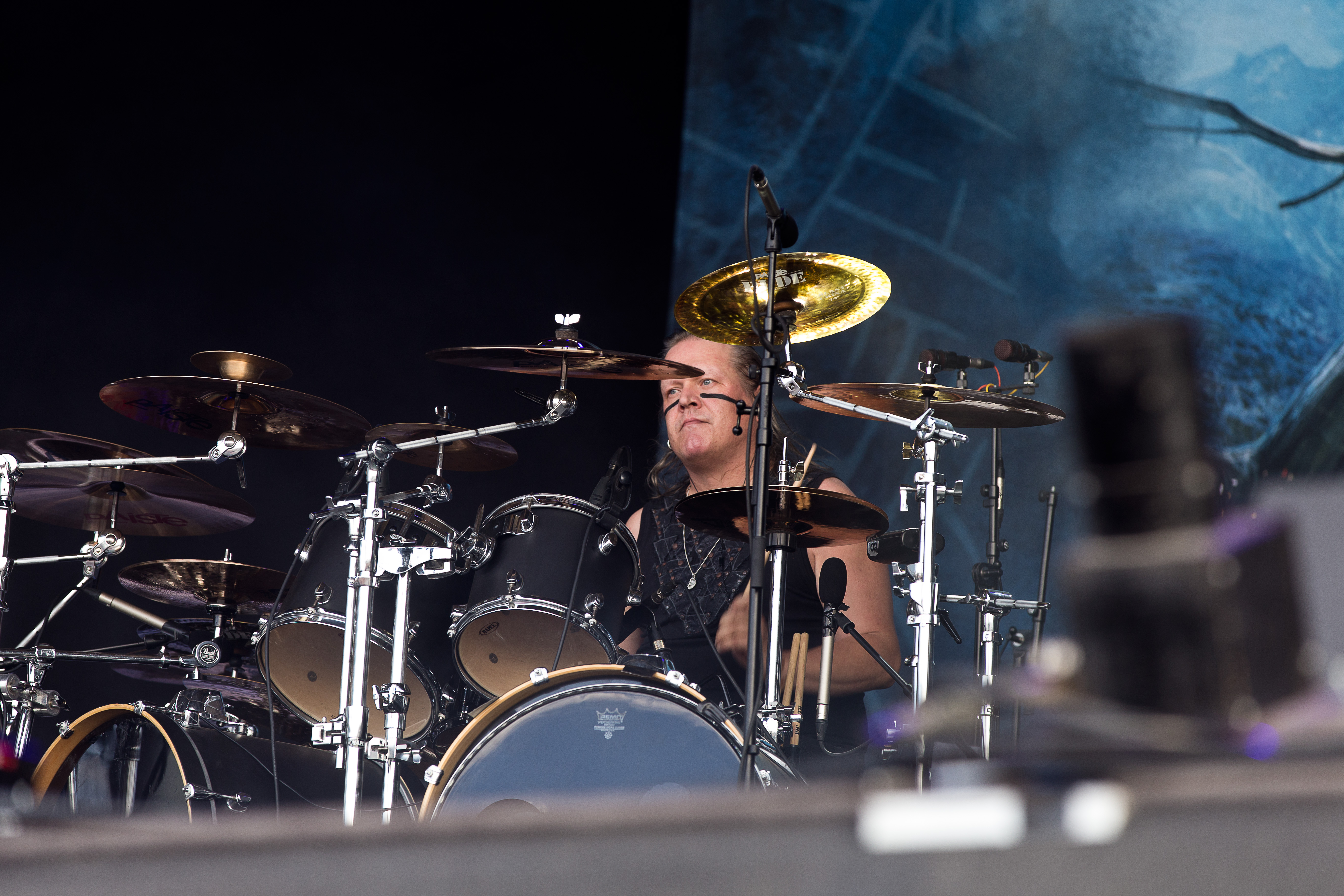 The Finnish folk metal band Ensiferum at the Rockharz Open Air 2016 in Ballenstedt/Germany.